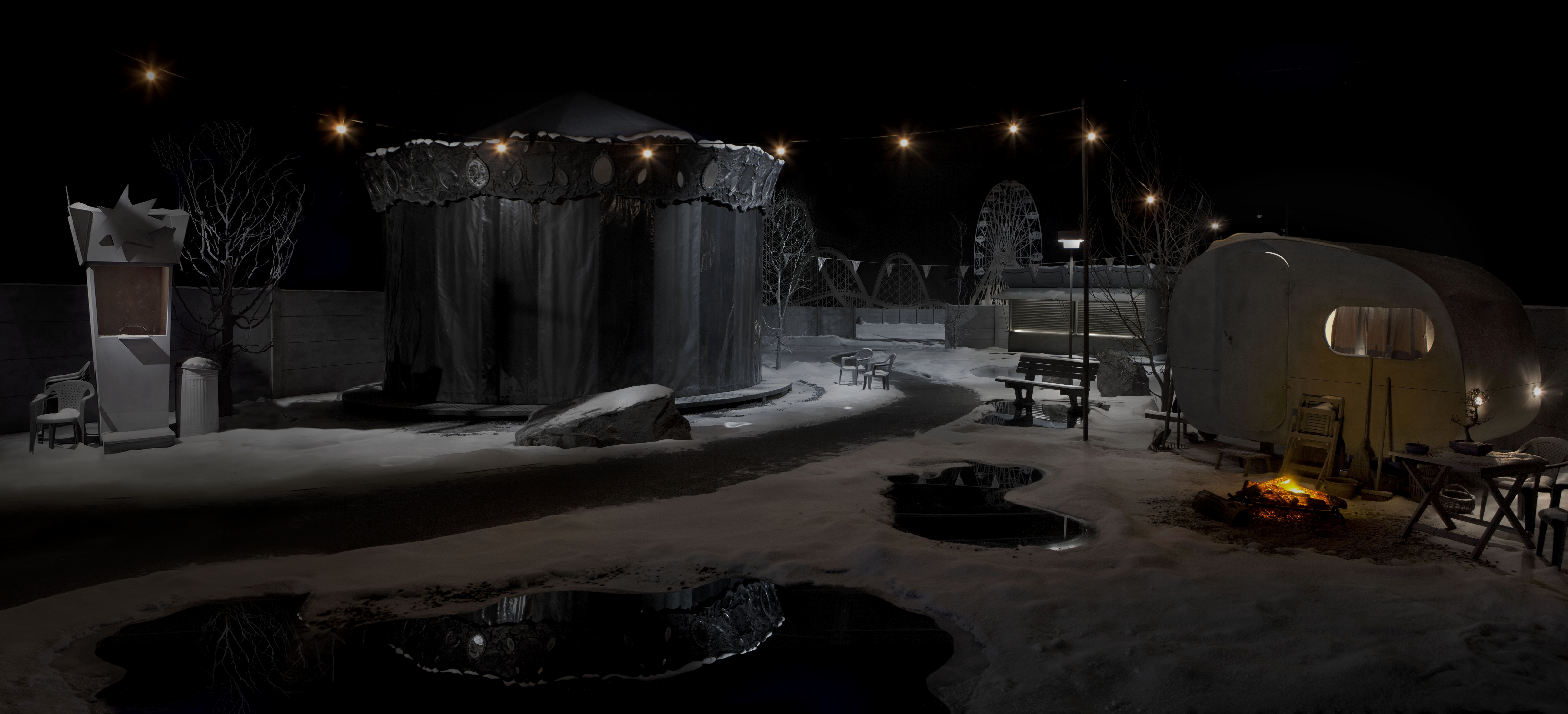 The Amusement Park 2015